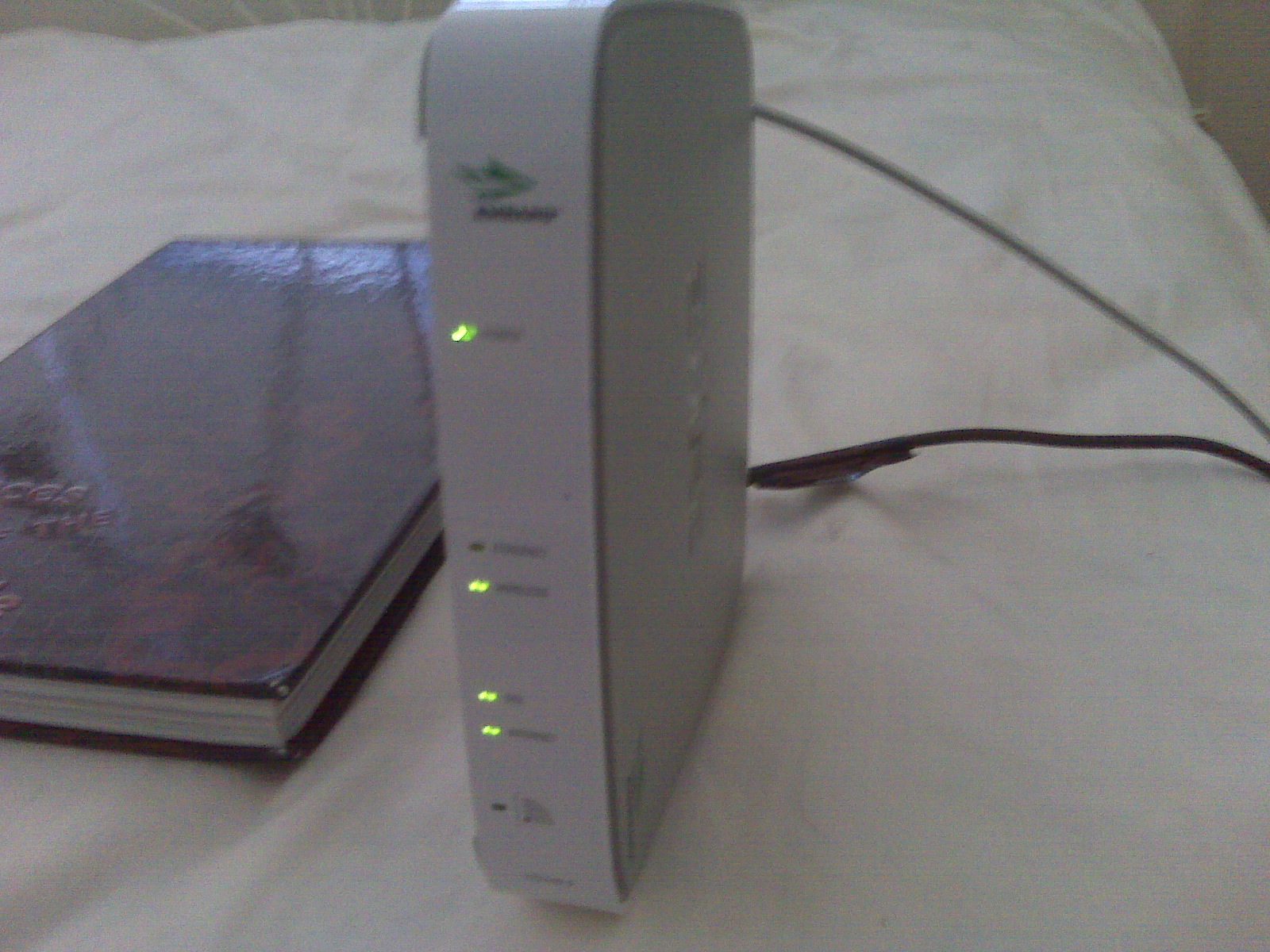 2Wire 2107HG-S wireless gateway from Embarq